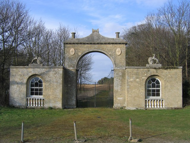 Langley Hall gatehouse. Just off the A146 on the road to Chedgrave; the statues on either side are inscribed "Toujours Fidele" (forever faithful) the motto of the Beauchamp family who lived at Langley Hall (now 148137 )